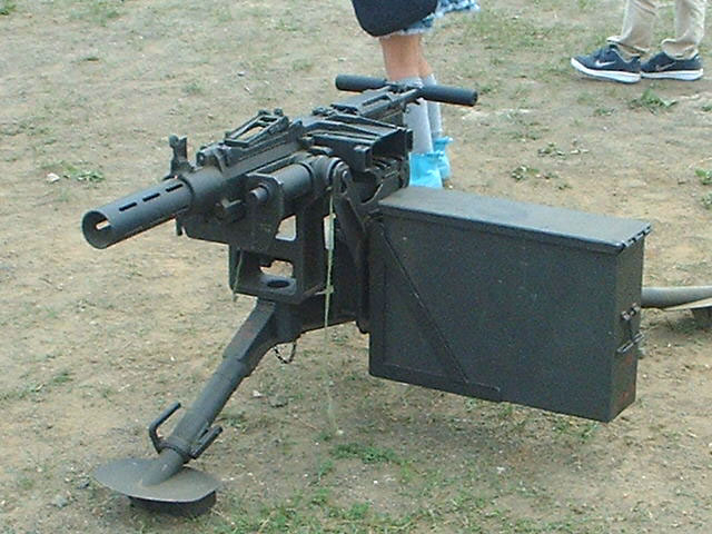 JGSDF 40mm Automatic Grenad gun on Tripod